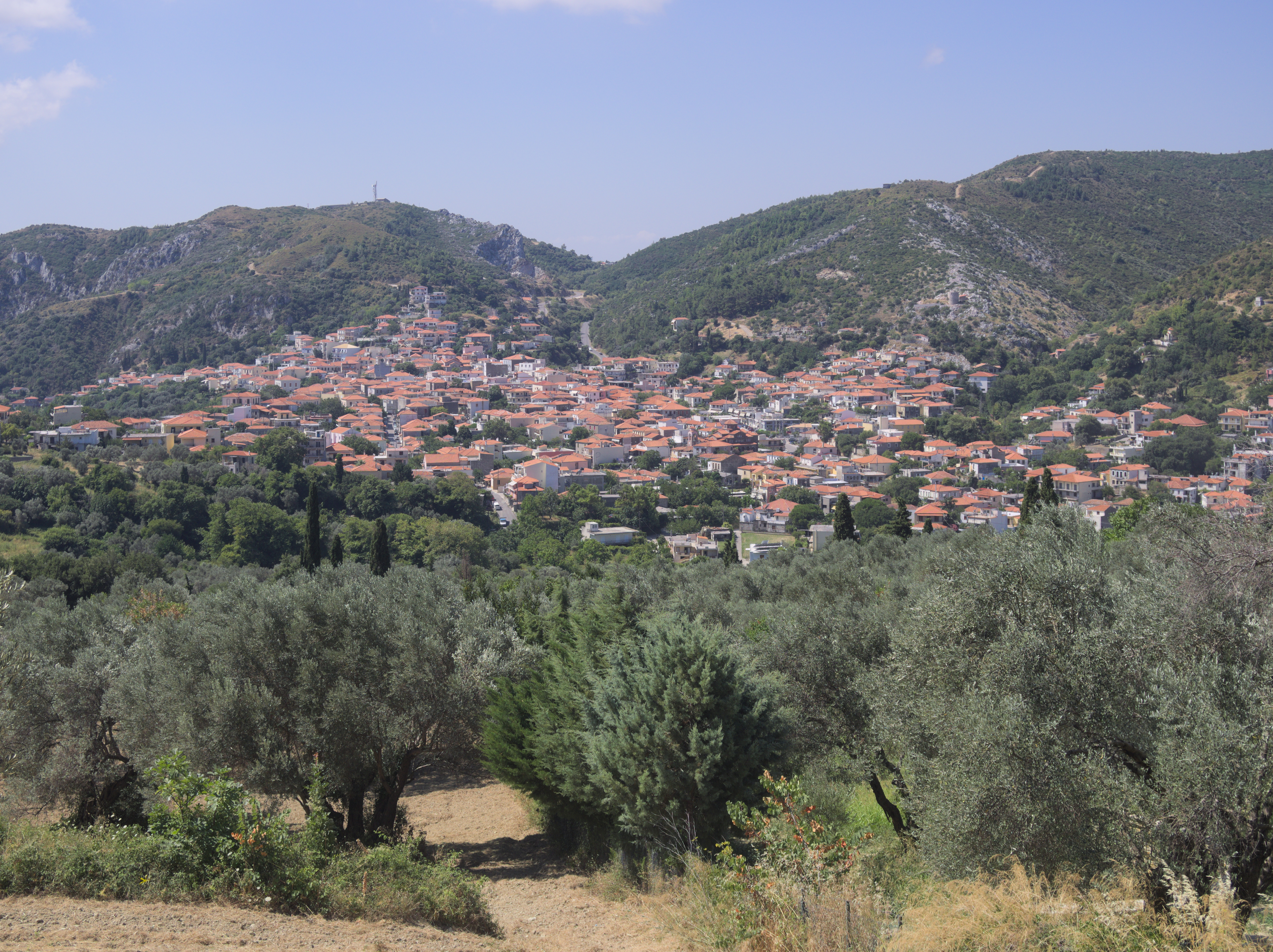 View of the town of Kymi from north